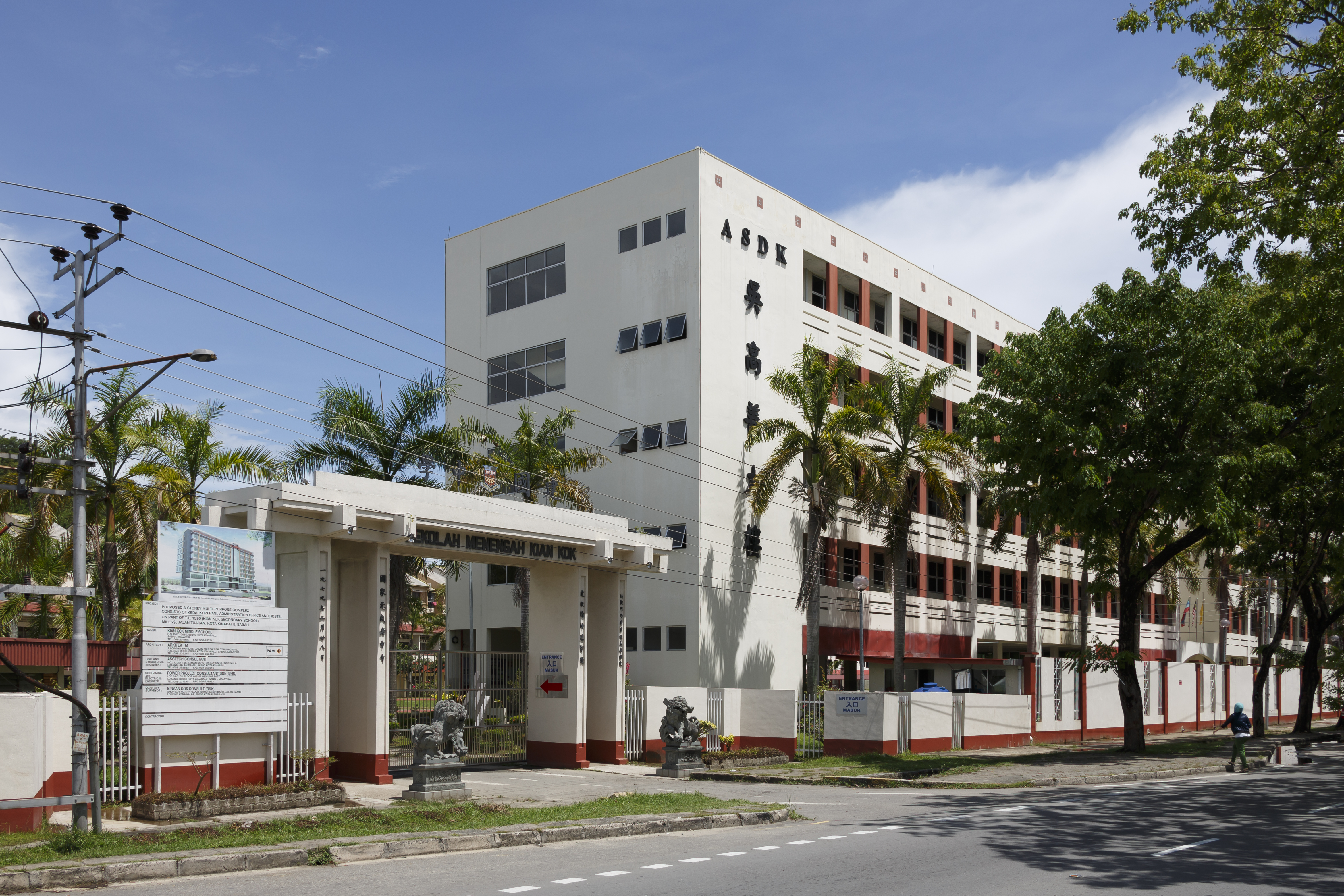 Kota Kinabala, Sabah: Sekolah Menengah Kian Kok (SMK Kian Kok, also known as Kian Kok Middle School), a secondary school in Kota Kinabalu